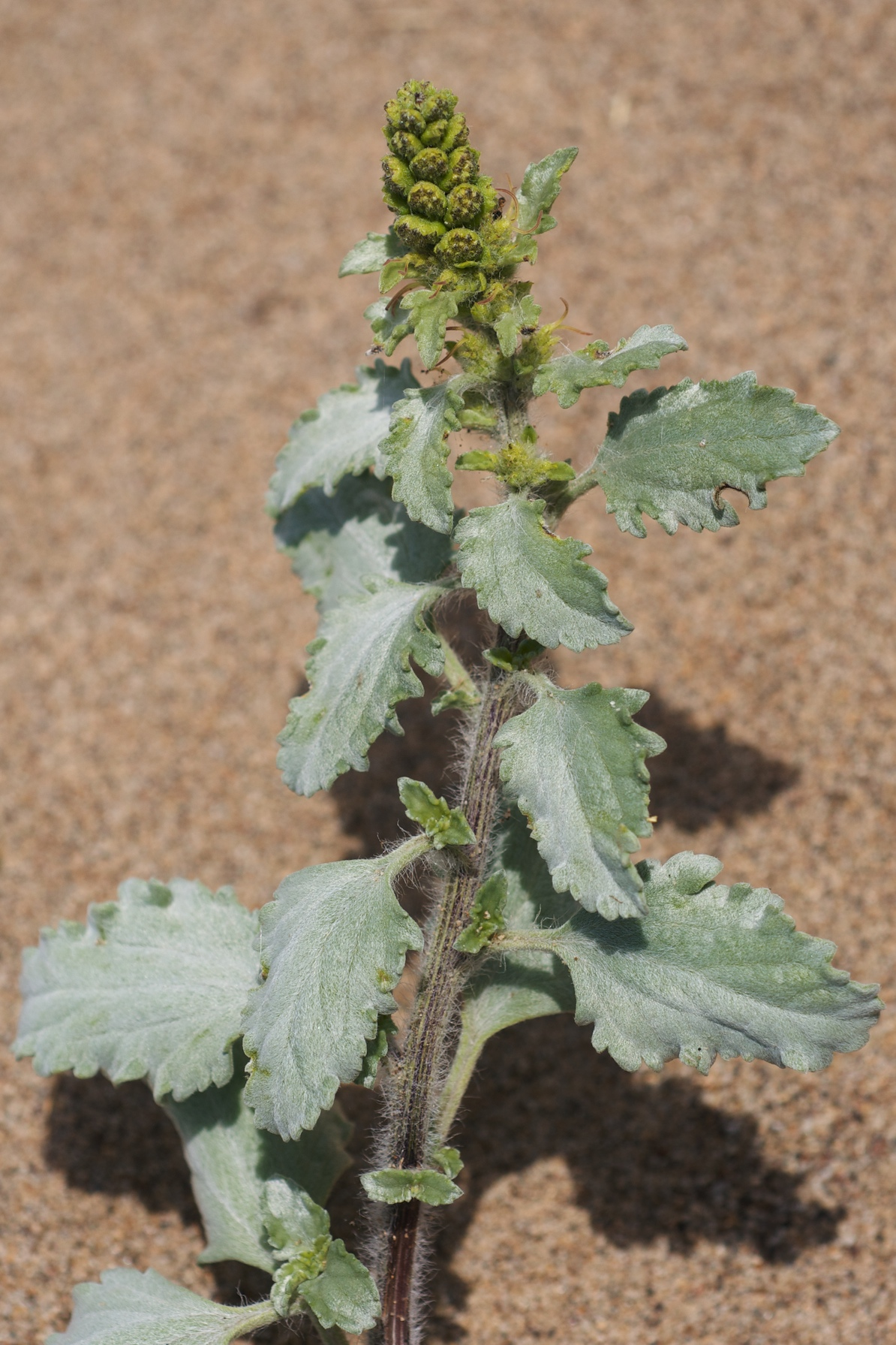 Species from Western North America Common name: Silver Bur Ragweed Photographed at Abbott's Lagoon, Pt. Reyes National Seashore, Marin County, California